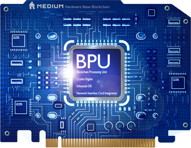 BPU(Blockchain Processing Unit)